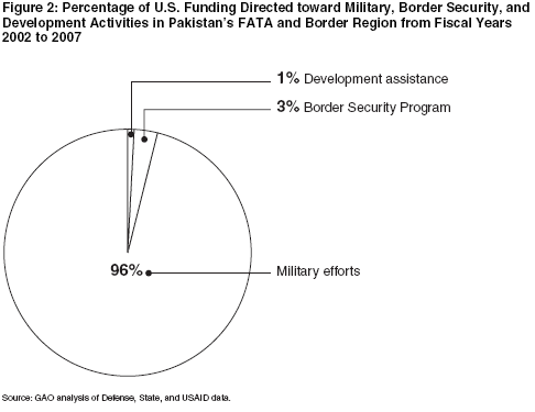 Image included in The United States Lacks Comprehensive Plan to Destroy the Terrorist Threat and Close the Safe Haven in Pakistan’s Federally Administered Tribal Areas